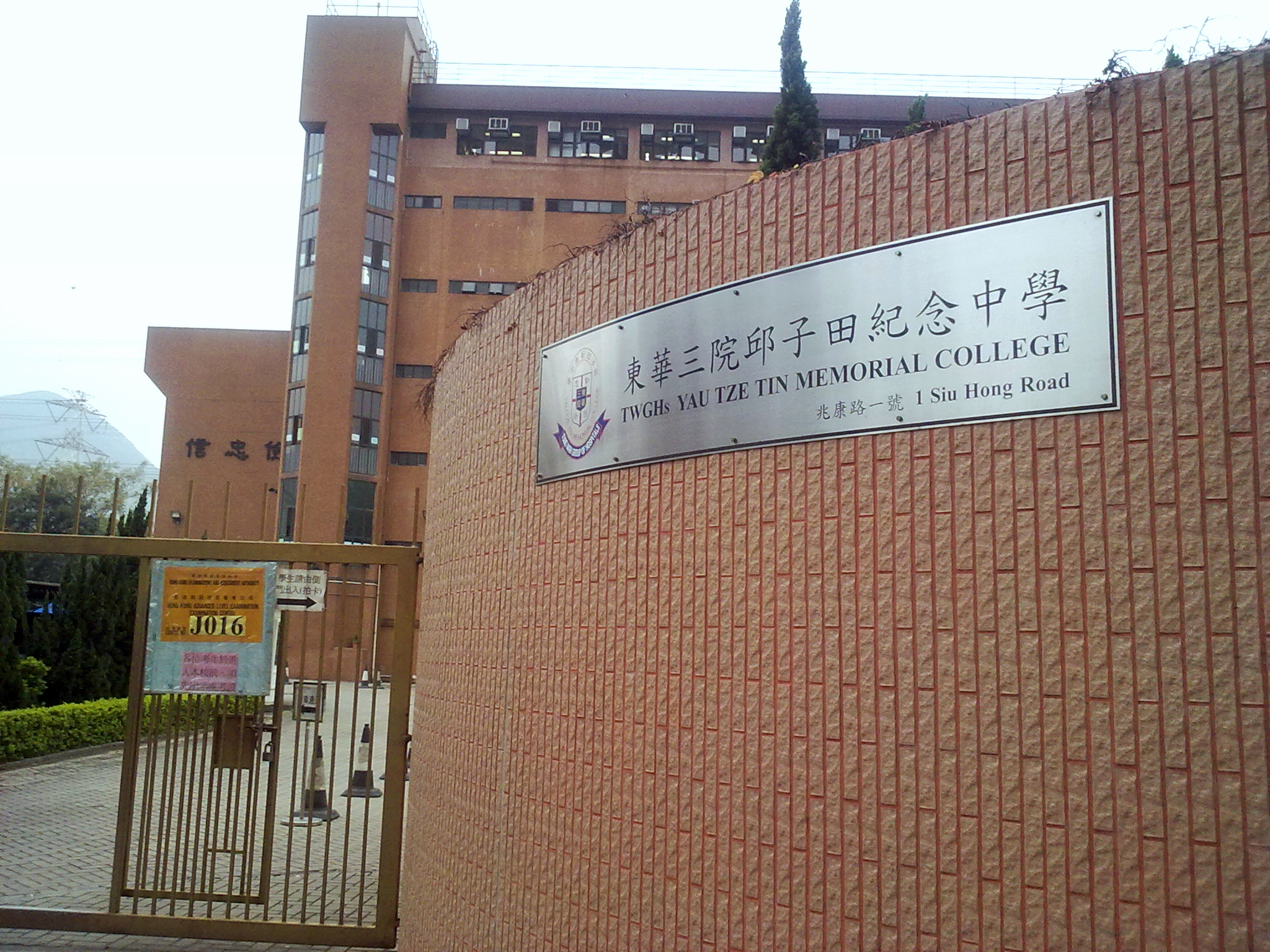 Main entrance of TWGH Yau Tsz Tin Memorial College, Tuen Mun, Hong Kong